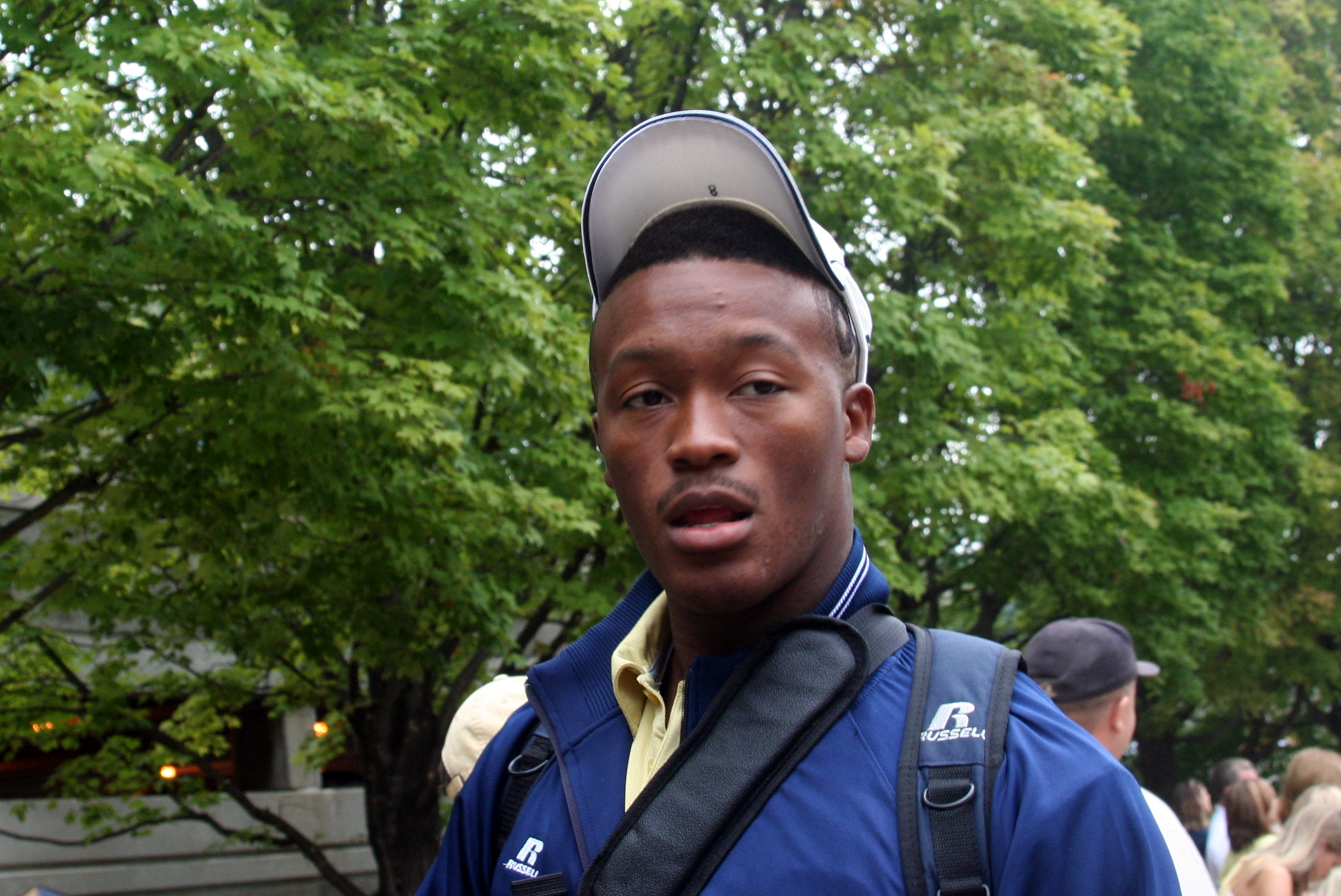 Demaryius Thomas in 2009